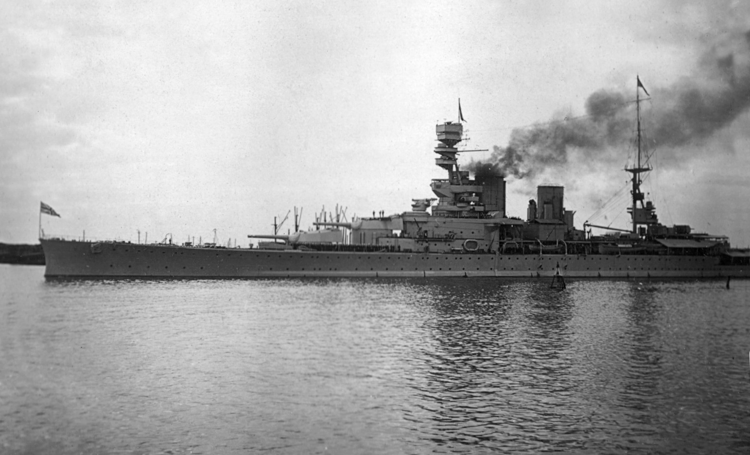 HMS Renown, Fremantle, Western Australia, carrying the Duke and Duchess of York back to England.